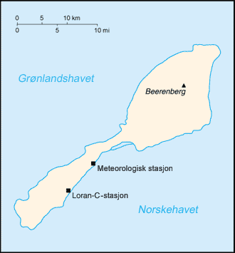 CIA map of Jan Mayen with Norwegian caption